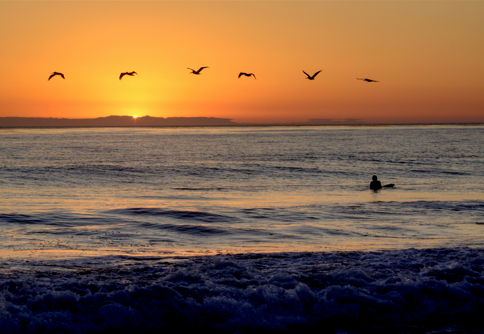 Sunset over San Clemente State Beach, California, USA, 2009.